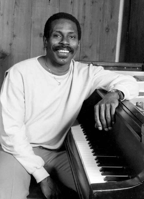 Jazz pianist George Cables in 1984. Photo by Brian McMillen